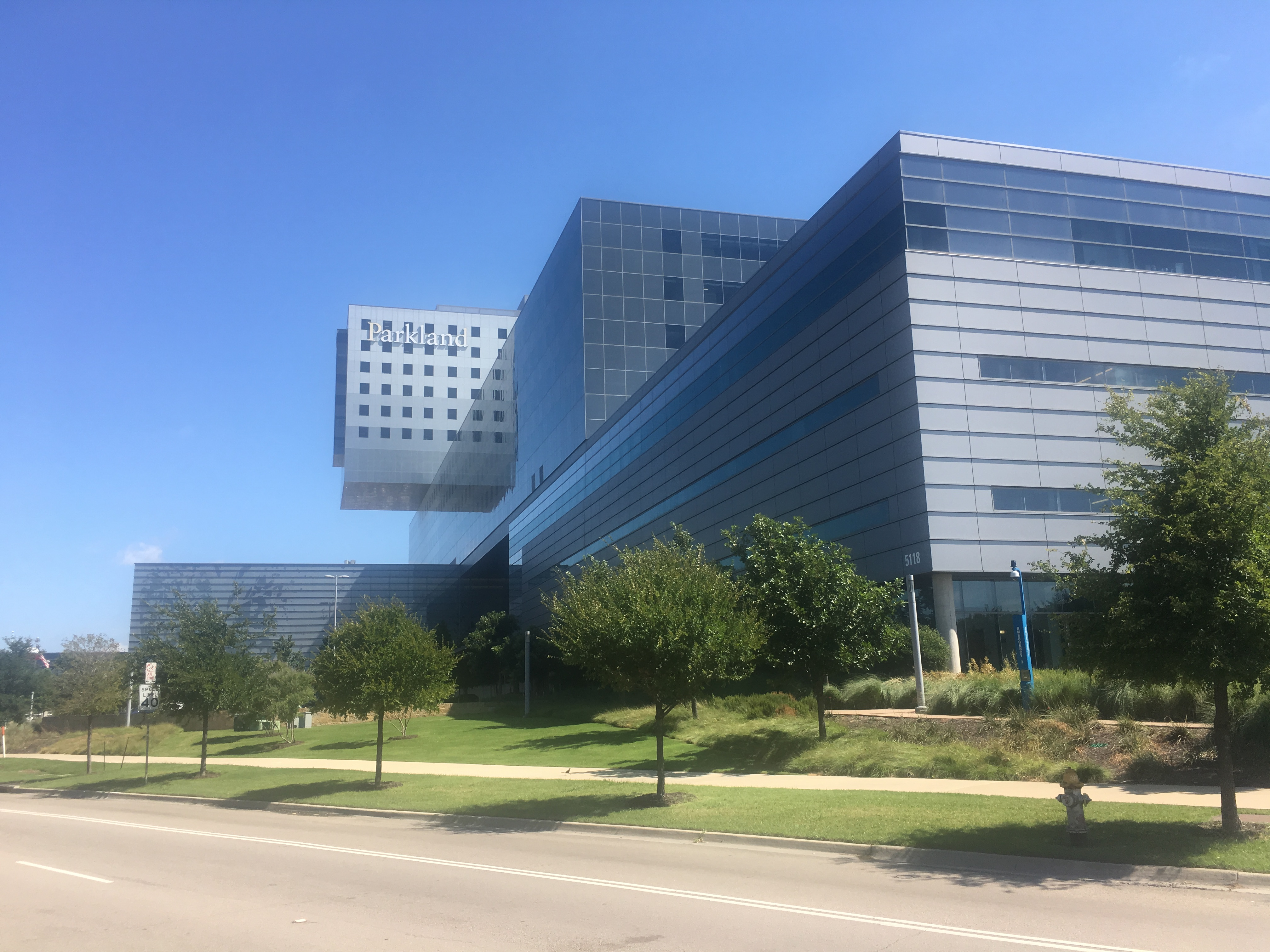 Parkland Memorial Hospital, Dallas, Texas